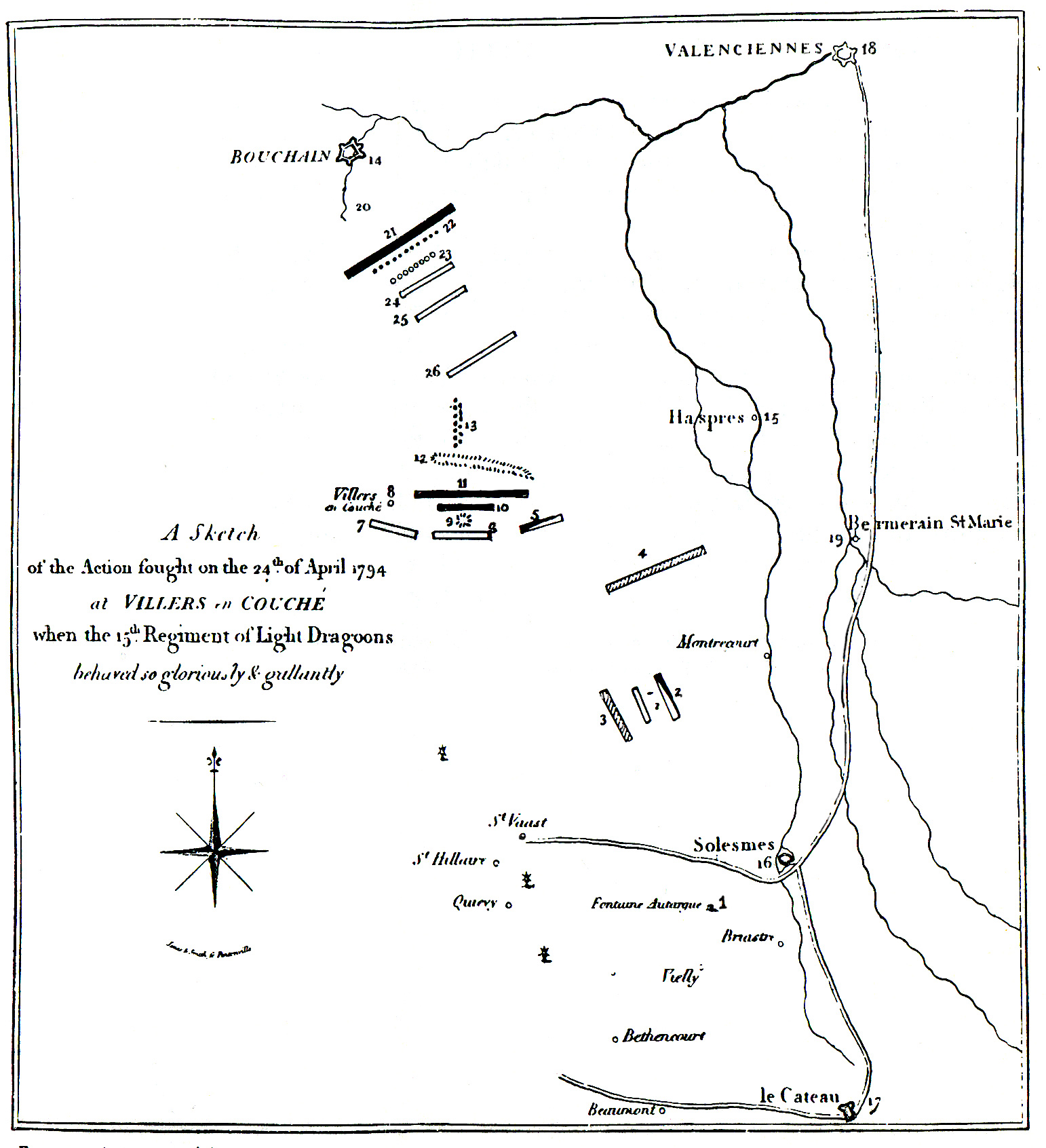 The Action at Villers-en-Cauchies 24th April 1794, reproduced in XVth (The King's Hussars) 1759 to 1913 (Colonel H. C. Wylly, Caxton Publishing 1914) Numerical Description of the Sketch of the Action of April 24, 1794 1.Fontaine au Targue, a farm-house, where the hussars, the heavy cavalry, and 15th Light Dragoons lay on their army the night previous to the attack. 2. The 15th Light Dragoons and hussars marching to the attack. 3. The heavy cavalry marching to the attack. 4. The heavy cavalry hear abandoned the light dragoons. 5. Austrian Hussars. 6. The right squadron of the 15th Light Dragoons. 7. The left squadron of the 15th Light Dragoons. 8.Villers en Cauches crowded with troops and cannons. 9. A hill. 10. French cavalry. 11. French infantry, with cannon and colours. 12. A ravine, where the French lost great numbers after the charge. 13. The French cavalry retreating in disorder. 14. Bouchain. 15. Haspres. 16. Solesmes. 17. Cateau. 18. Valenciennes. 19. Bermerain St. Marie, the village through which the Emperor had to pass on the day of the attack, and of which the French had taken possession, but were obliged to abandon, in consequence of the attack made on a body of their troops on the right. 20. The enemy pursued to this spot, but the Allied troops being now beset by many thousands, collected from Bouchain and other towns, a rear-guard was formed, and the retreat executed in good order in the face of the enemy. 21. French forces advancing. 22. French skirmishers. 23. The 15th Dragoons skirmishers. 24. The rear-guard of the Fifteenth facing the enemy. 25. The rear-guard of the Fifteenth retreating. 26. The body of the Fifteenth retreating.